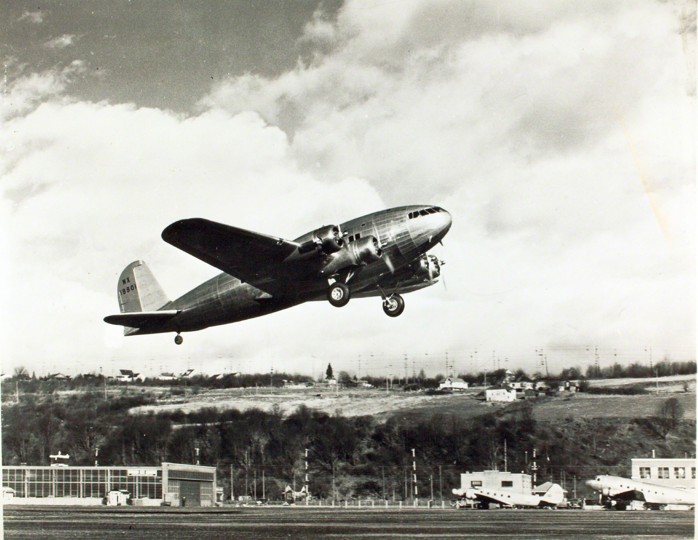 Catalog #: 01_00091290 Title: Boeing, Type 307, Stratoliner Corporation Name: Boeing Aircraft Designation: Type 307 Official Nickname: Stratoliner Additional Information: USA Repository: San Diego Air and Space Museum Archive Tags: Boeing, Type 307, 307, Stratoliner